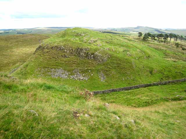 On the Hadrian's Wall National Trail, above Alloa Lea The National Trail largely follows the line of Hadrian's Wall Hadrian's_Wall, much of which is constructed on the Whin Sill. Looking east, the cliffs of the Whin Sill to the east of Cawfields can be seen on the skyline to the right of the photo.